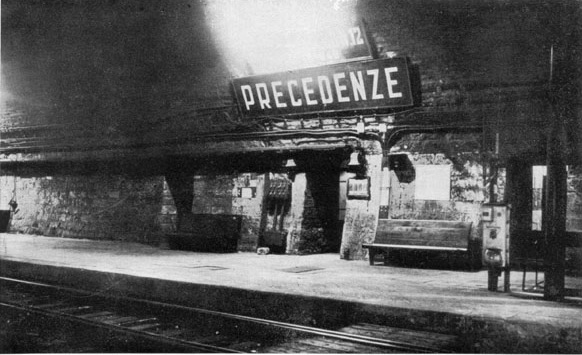 The Great Tunnel of Appennini (Grande Galleria dell'Appennino) is 18.5 km long. In the middle of the tunnel a station was built, called Precedenze. It had two additional tracks, on separate tunnels (each 448 m long), to permit overtaking of faster trains on slower ones. The separate tunnels still exist but their tracks have been removed many years ago.